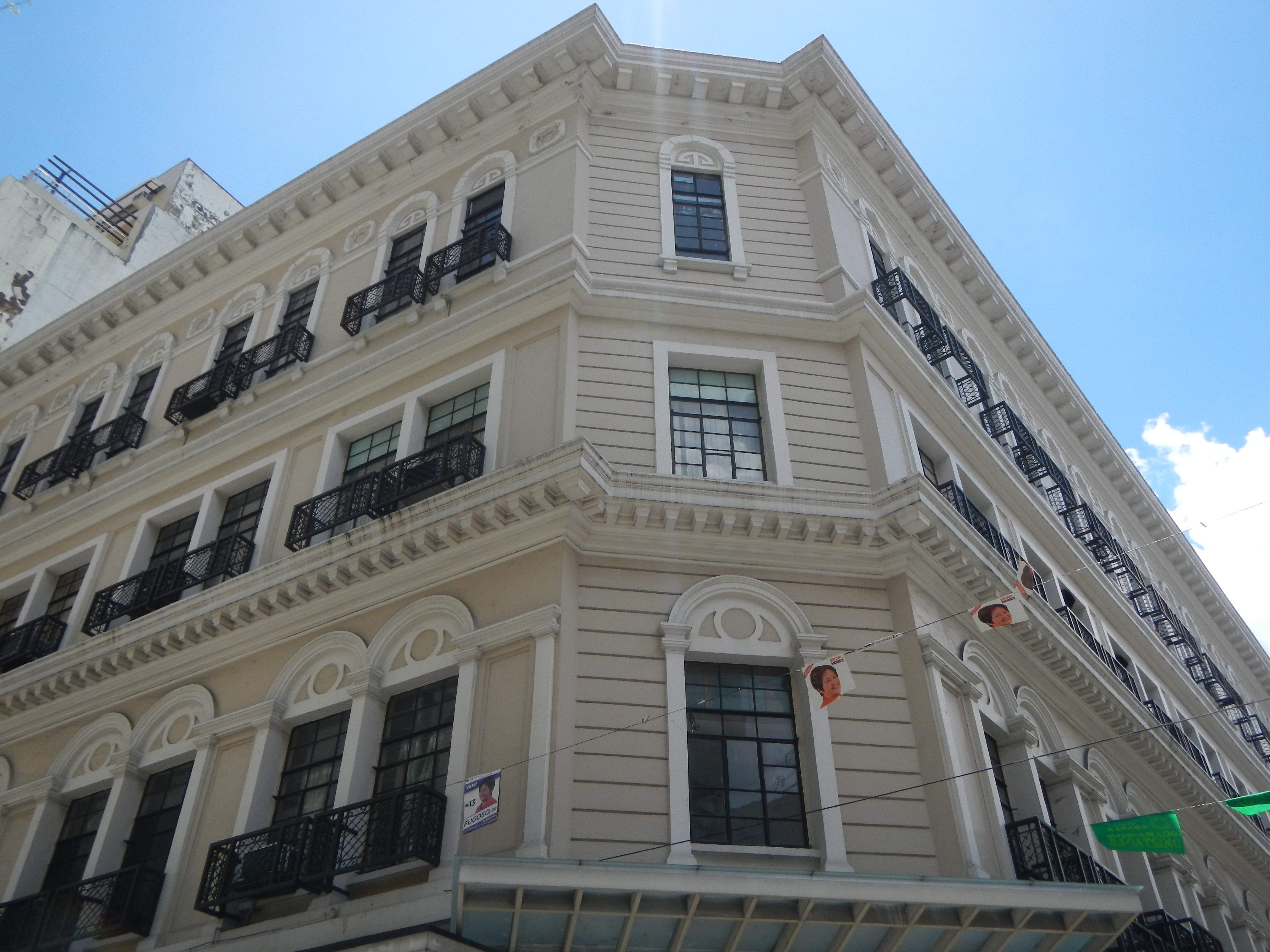 Escolta Street City of Manila, Santa Cruz, Manila and Binondo, List of Cultural Properties of the Philippines in Metro Manila, List of Cultural Properties of Santa Cruz Buildings in Santa Cruz, Manila Regina Building, Tambunting Pawnshop, First United Building (Perez-Samanillo Building), William J. Burke Burke Building (Manila), Natividad Building Escolta corner Tomas Pinpin Streets.